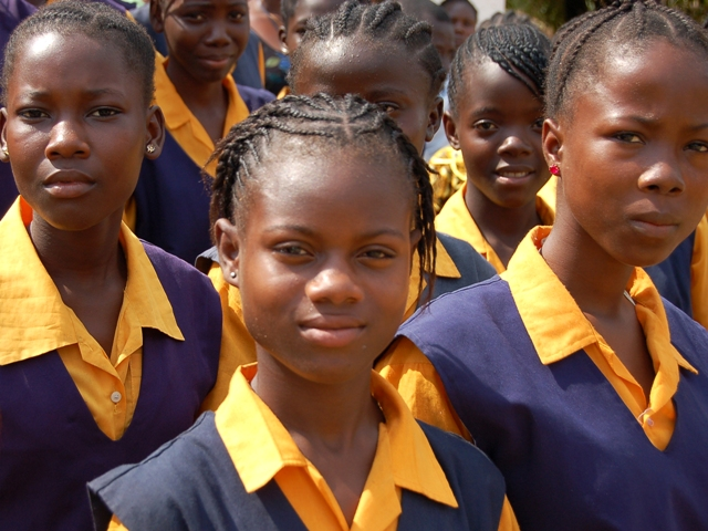 USAID has helped Liberia rebuild a school system decimated by war. (USAID)